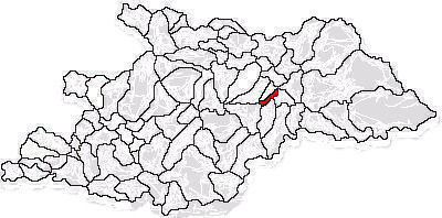 Map of Şieu commune in Maramures County